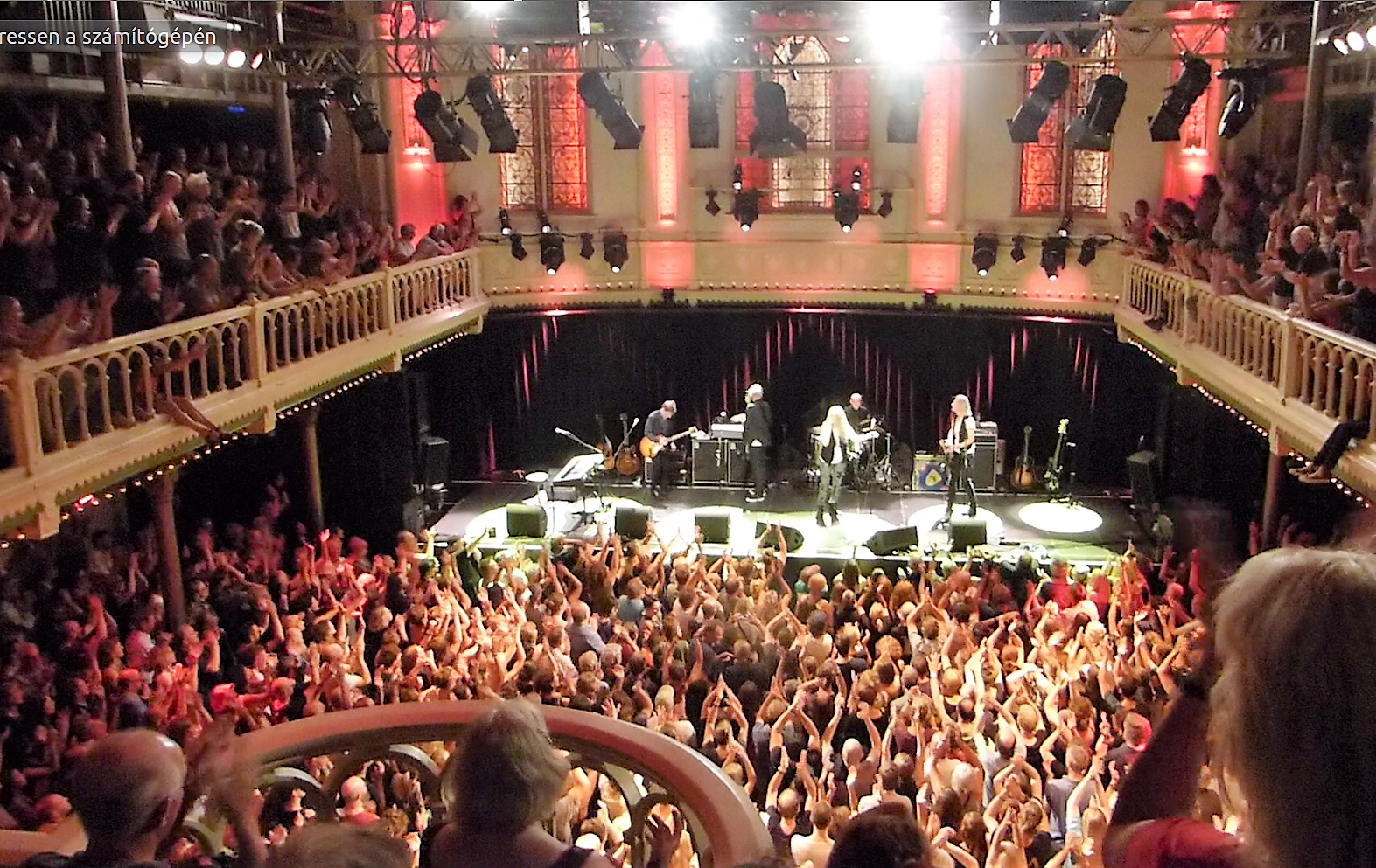 Patti Smith in Paradiso, Amsterdam on the 6th of August, 2018. The last songː People have the Power, standing ovation.